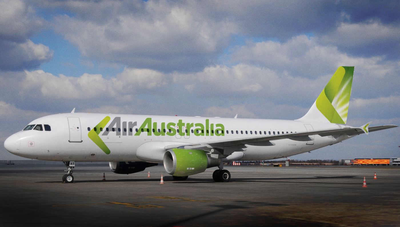 An Airbus A320-200 of the Austrlian carrier Air Australia.